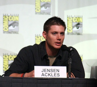 Cropped version of File:Jensen Ackles 2008 Comic-Con 03.jpg, showing Jensen Ackles at the Comic-Con International in 2008.